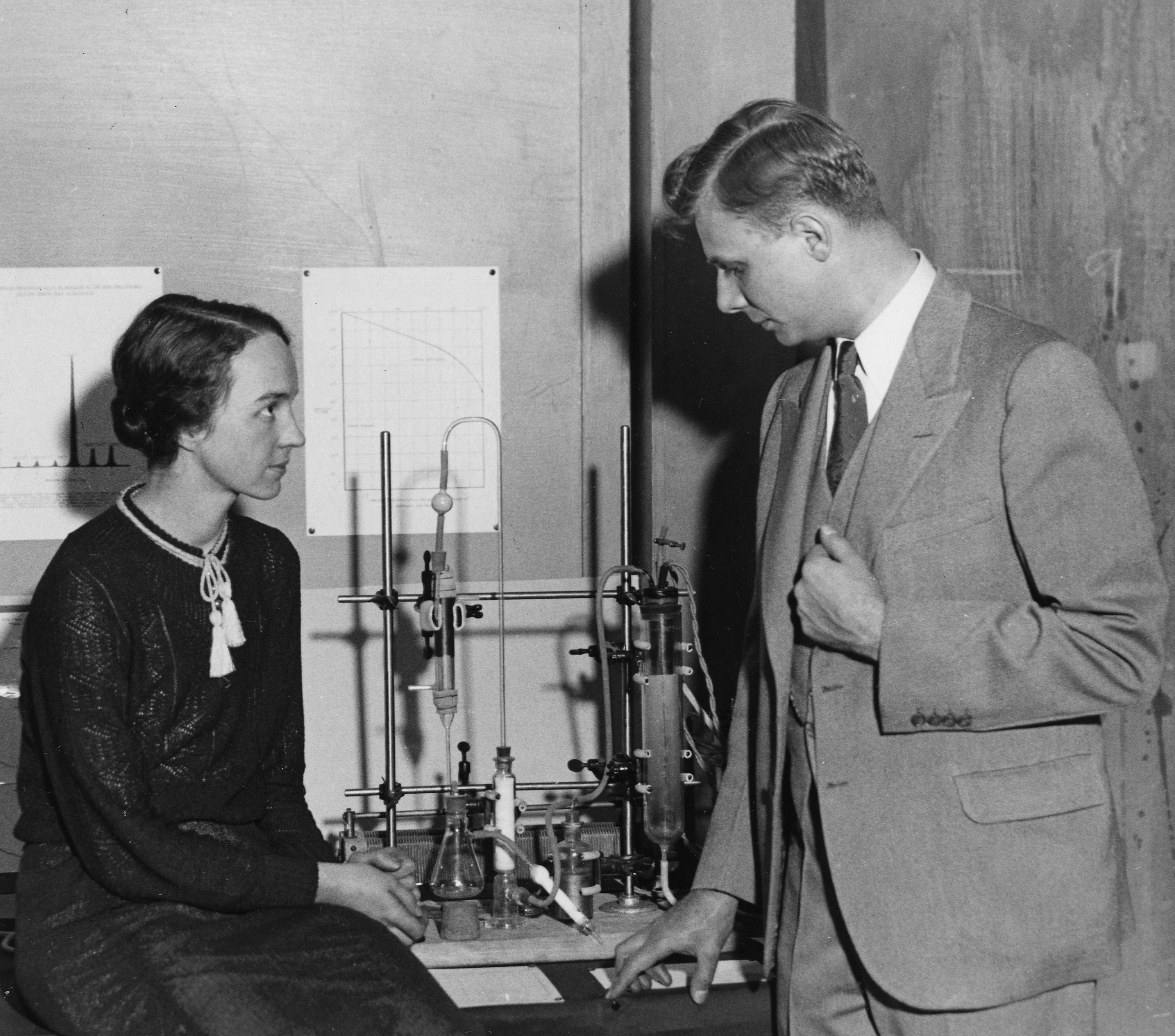 Description: This photograph of Marion Langhorne Howard Brickwedde (1909-1997) with Ferdinand G. Brickwedde (1903-1989) was captioned: "Dr. F. G. Brickwedde and his wife with the apparatus for making heavy water." Marion Brickwedde earned a B.S. in chemistry (1929) and M.S. in physics (1930) from University of Georgia. During her career, she taught physics at George Washington University and Pennsylvania State University, and was on the research staffs of the U.S. National Bureau of Standards and Los Alamos National Laboratory. Creator/Photographer: Unidentified photographer Medium: Black and white photographic print Persistent URL: Repository: Smithsonian Institution Archives Collection: Accession 90-105: Science Service Records, 1920s – 1970s - Science Service, now the Society for Science & the Public, was a news organization founded in 1921 to promote the dissemination of scientific and technical information. Although initially intended as a news service, Science Service produced an extensive array of news features, radio programs, motion pictures, phonograph records, and demonstration kits and it also engaged in various educational, translation, and research activities. Accession number: SIA2008-0031